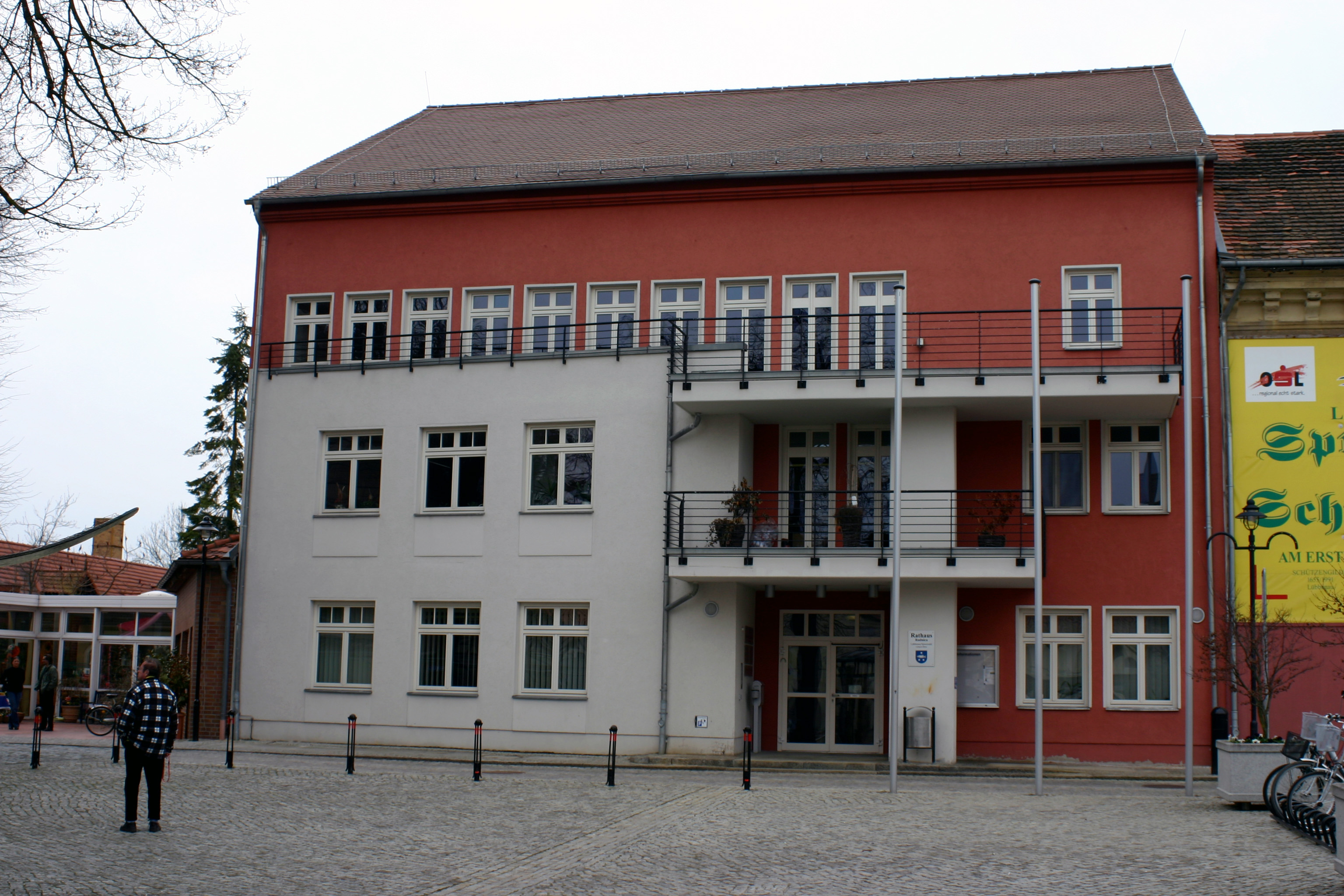 city hall of Lübbenau im Spreewald, Germany